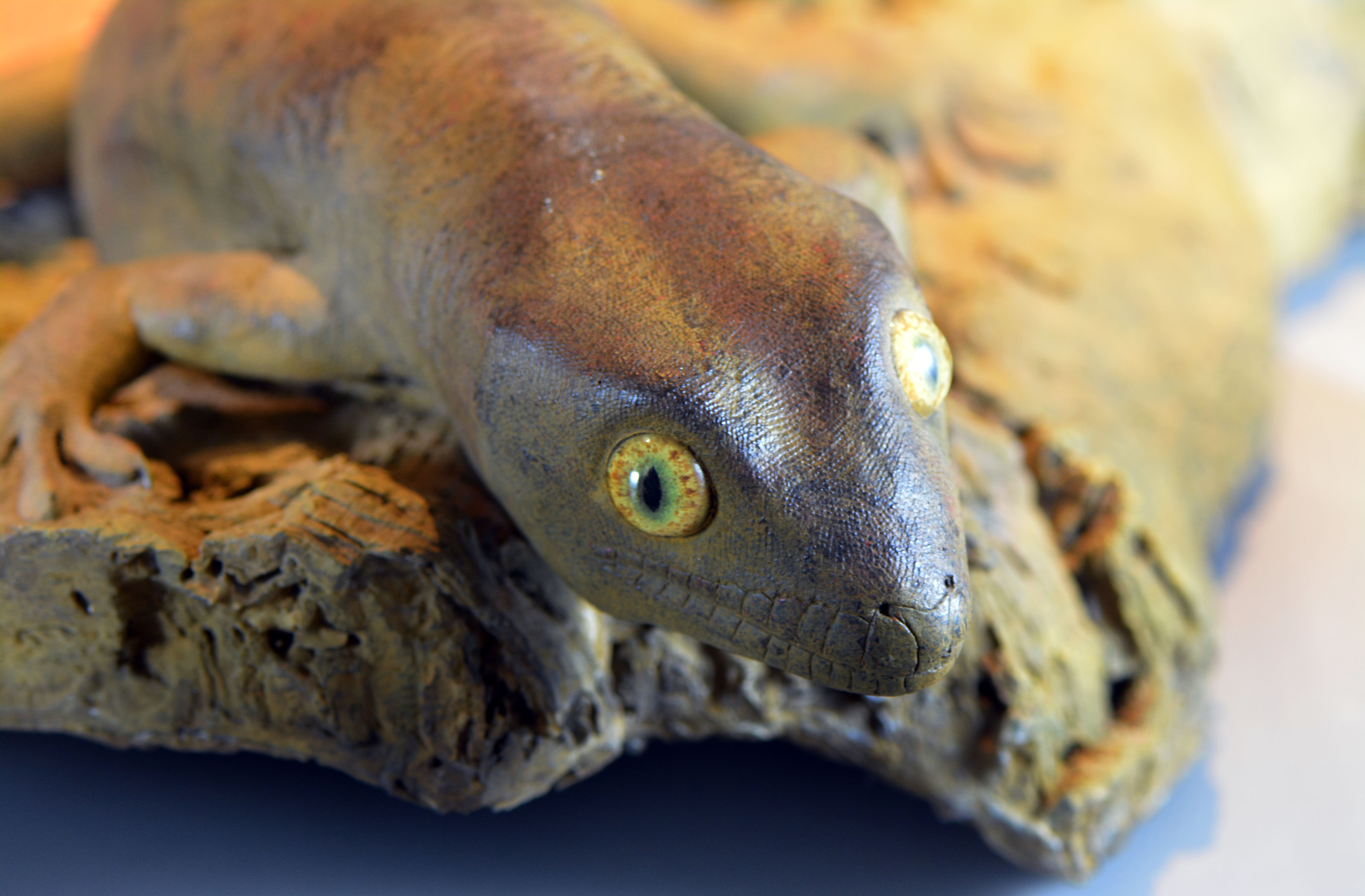 Delcourt's Gecko (Hoplodactylus delcourti): a giant gecko species, endemic of New Zealand wich became extinct species in the second half of the nineteenth century ; considered extinct in 1870. It could reach 60 cm long, . Only a few reconstituted or naturalized specimens (like this one) are held by some natural history museum in the world. This object was part of the exhibition "The dear departed" presented to the public in 2000 by the Lille Natural History Museum (MHNL)